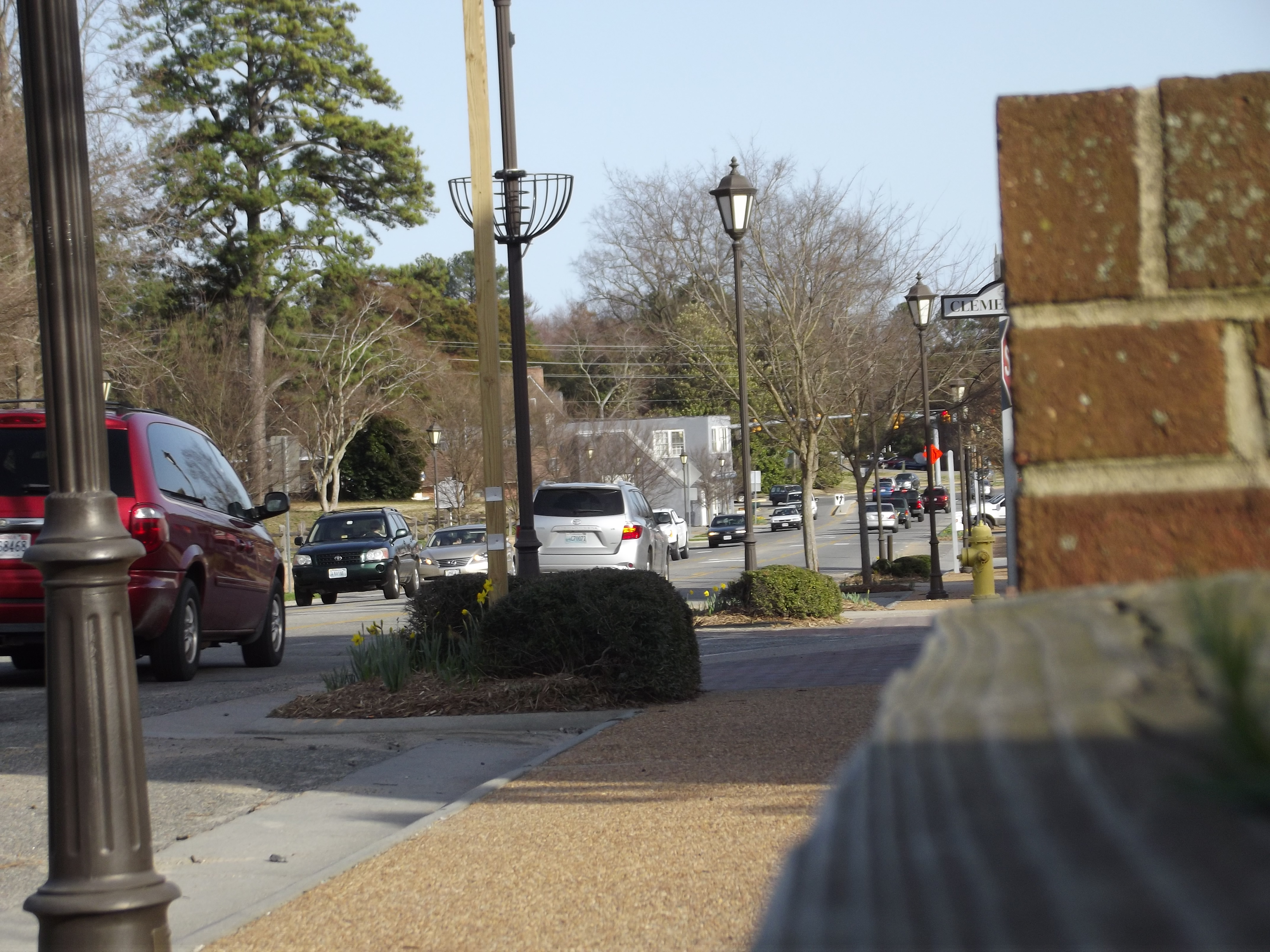 This is an image taken down Main St. in Gloucester, VA.